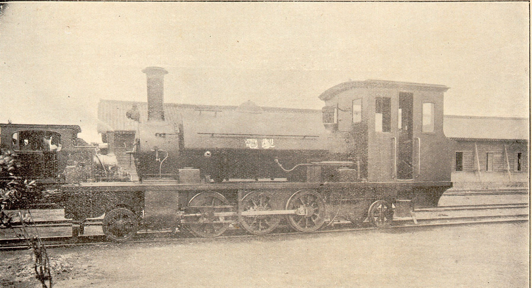 The steam locomotive No.6 "Chi-tien"(掣電) of Taiwan Railway